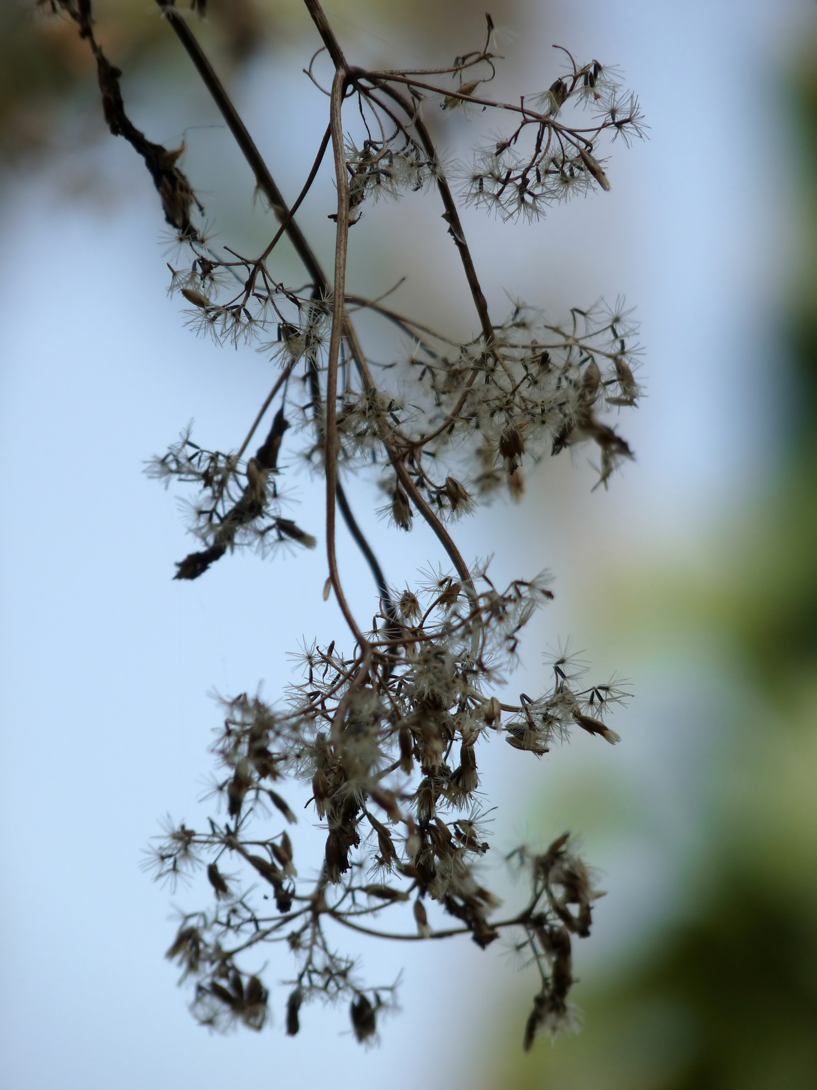 Mikania micrantha is a tropical plant in the Asteraceae family; known as Bitter Vine or Climbing Hemp Vine or American Rope. It is a vigorously growing perennial creeper that grows best in areas in high humidity, light and soil fertility, through, it can adapt in less fertile soils. The featherlike seeds are dispersed by wind. A single stalk can produce between 20 and 40 thousand seeds a season. The species is native to the sub-tropical zones of North, Central, and South America. It is a widespread weed in the tropics. It grows very quickly (as fast as 80 to 90 mm in 24 hours for a young plant) and covers other plants, shrubs and even trees. Mikania is a genus of about 450 species in the family of Asteraceae. The name honors the Czech botanist Johann Christian Mikan. Members of the genus are stem twiners and lianas and are common in the neotropical flora.